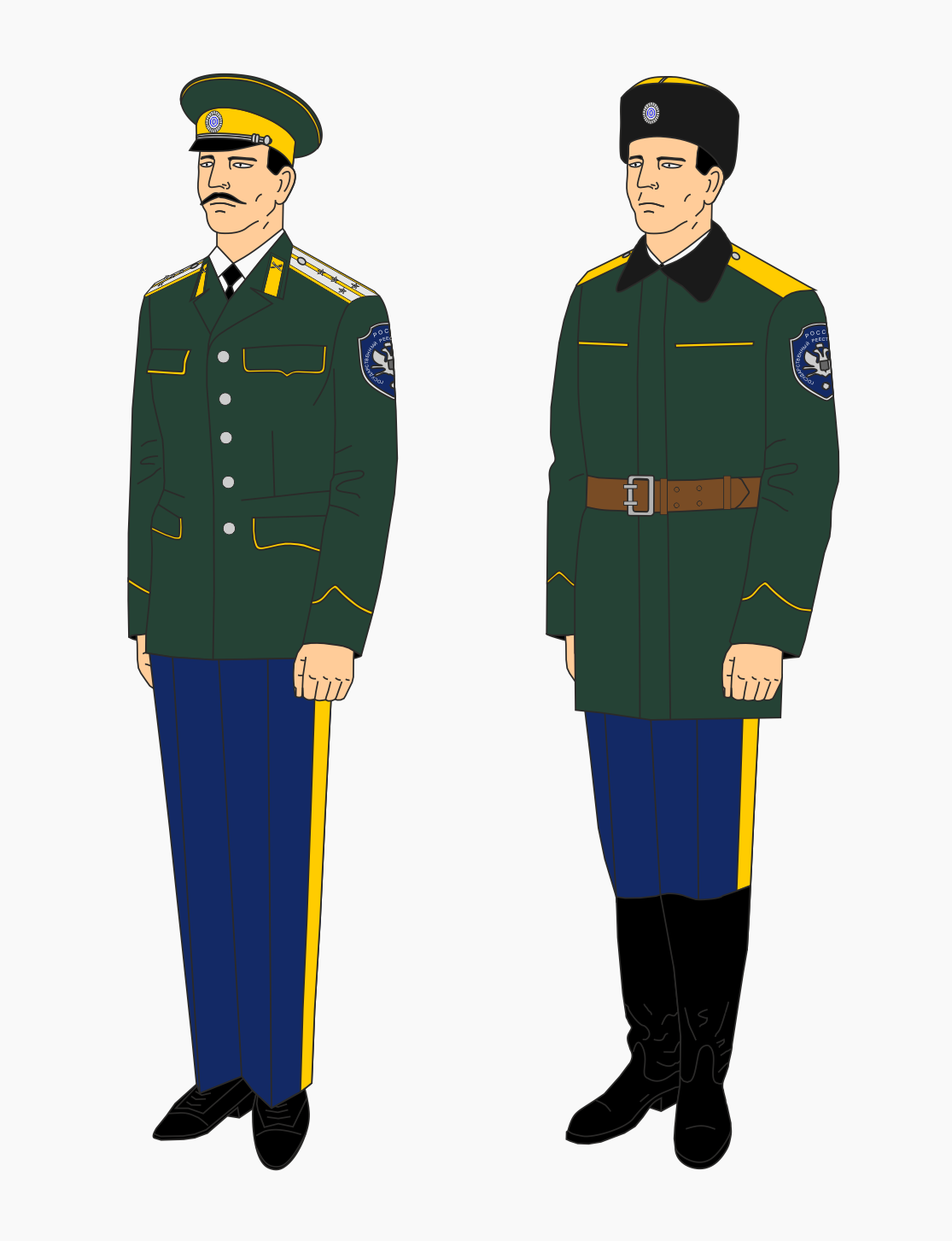 Уссурийское казачье войско (повседневная форма казаков)